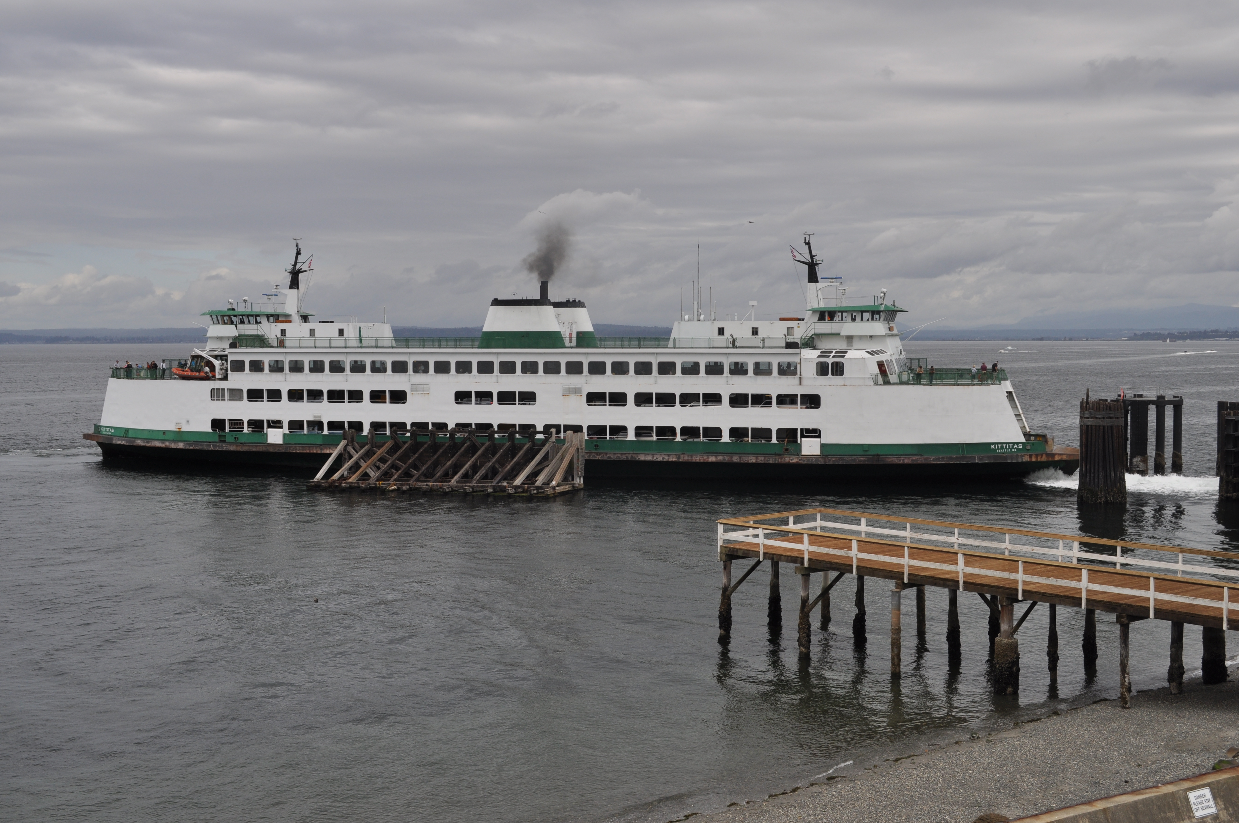 Washington State Ferry Kittitas pulls out of Mukilteo, Washington. Seen from atop the lighthouse.